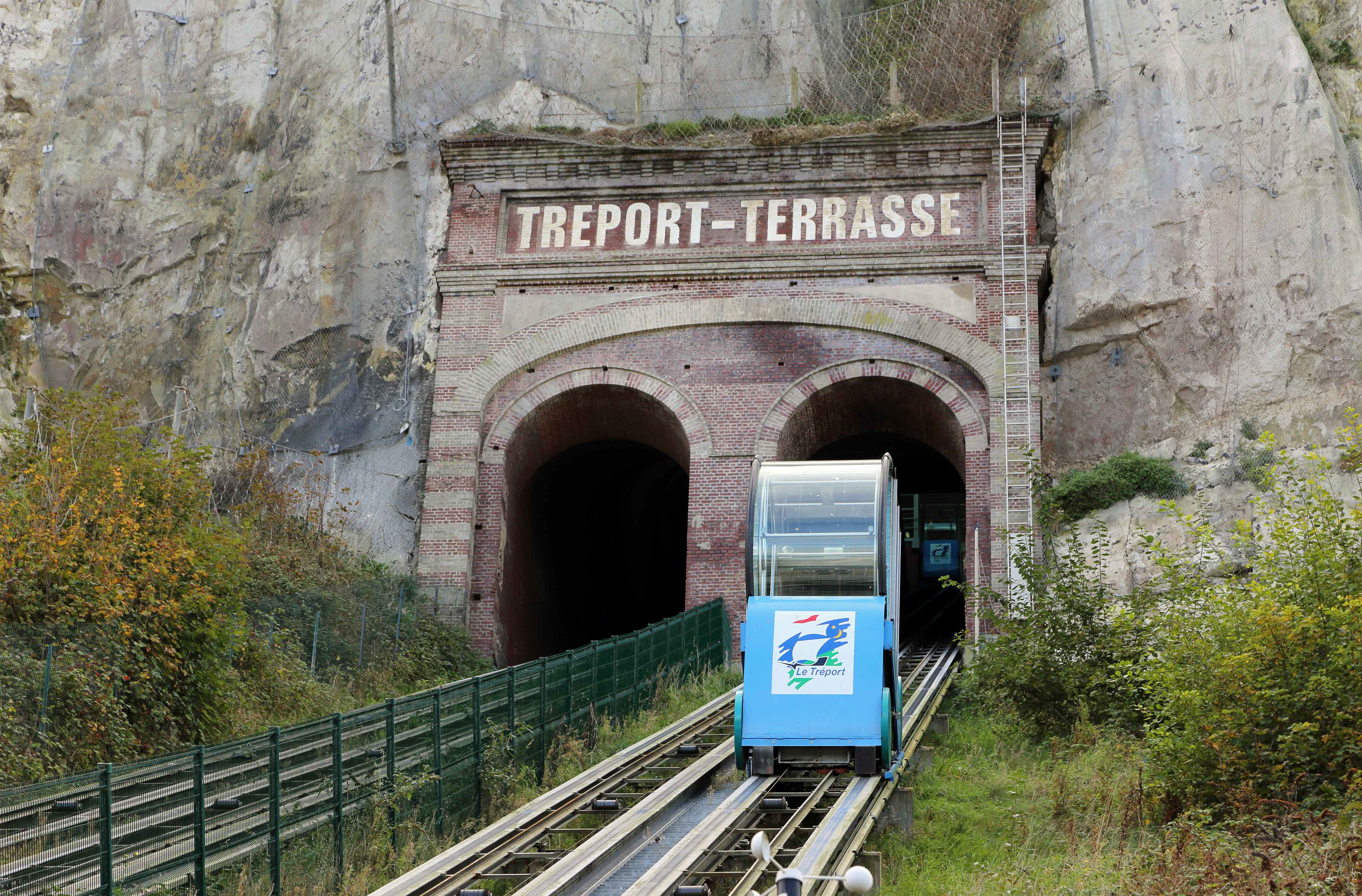 Le Tréport (Seine-Maritime department, France): the funicular